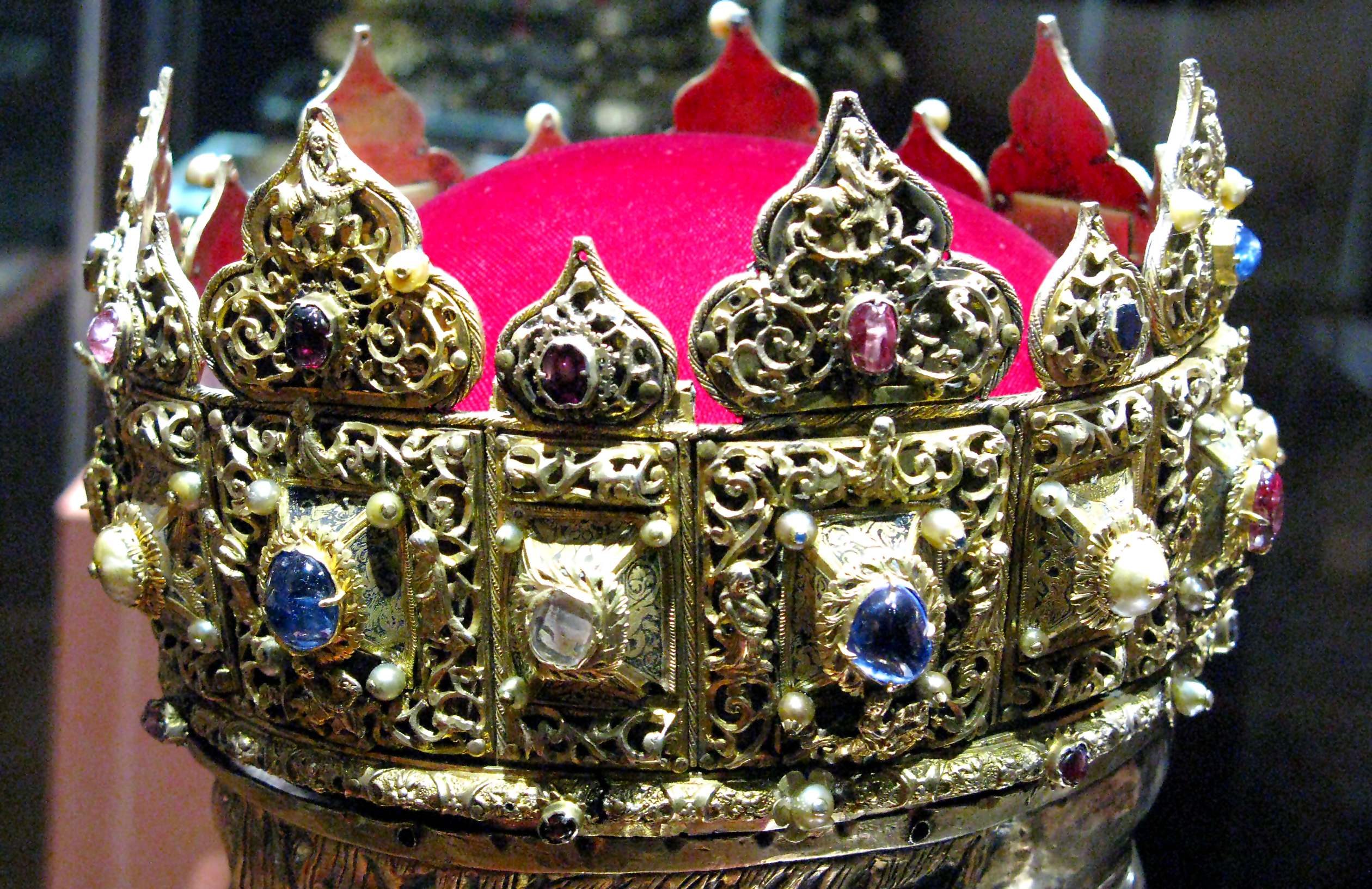 Photograph